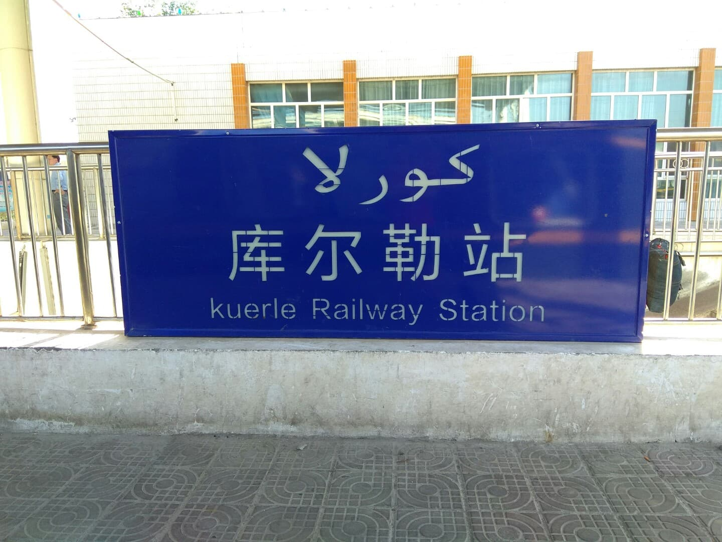 Nameplate of Korla railway station, in Korla, Bayingolin, Xinjiang, PRC